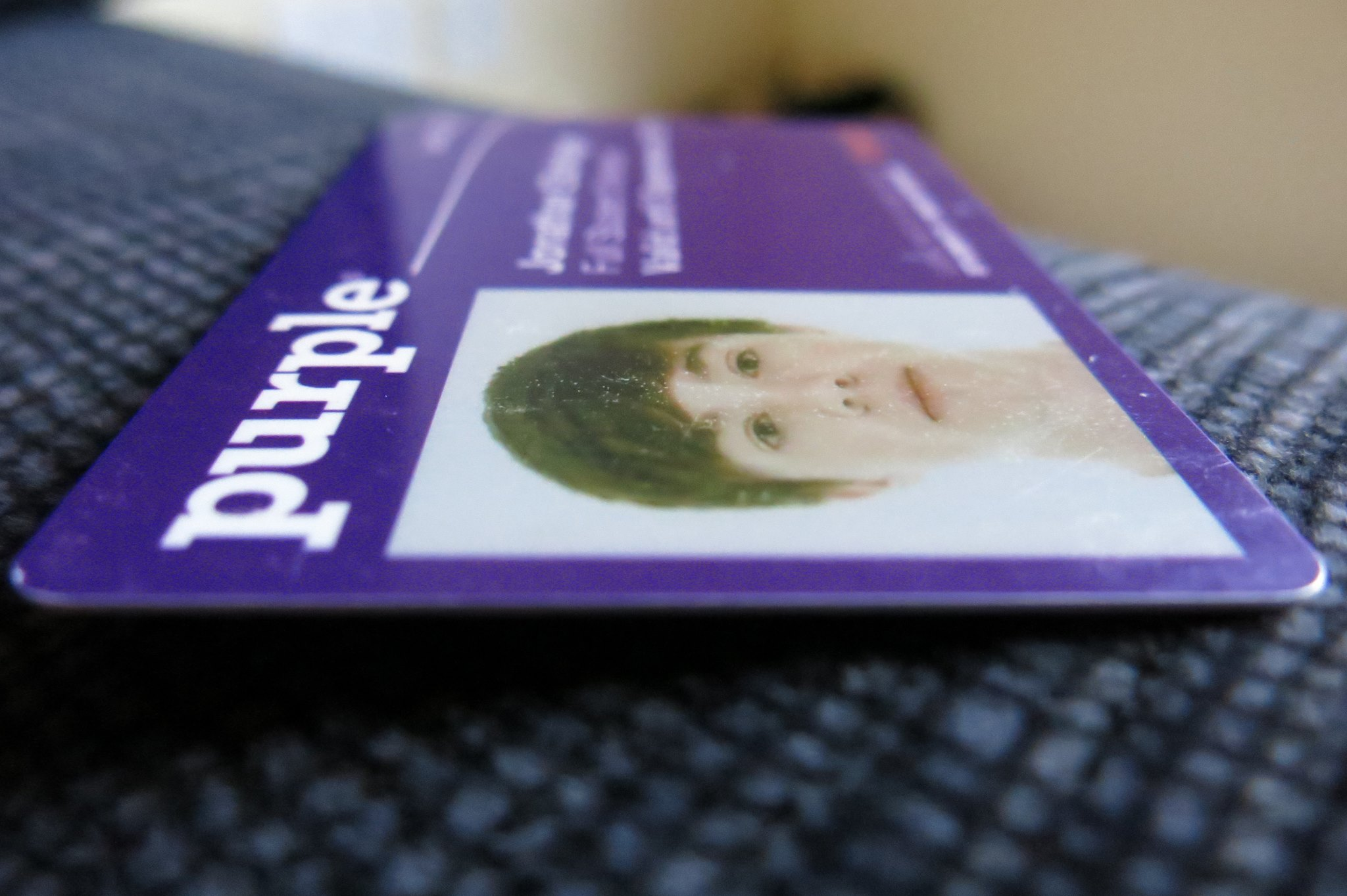 Purple Card